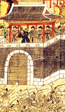 General Jung Bal of Joseon